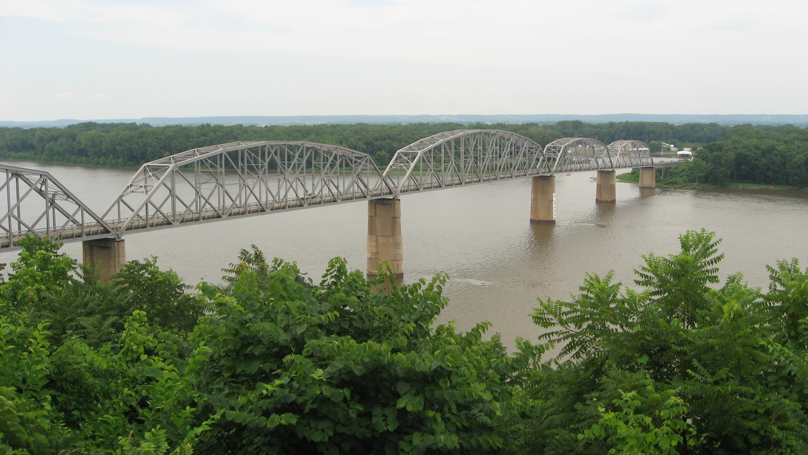 looking at the bridge from a blufftop park